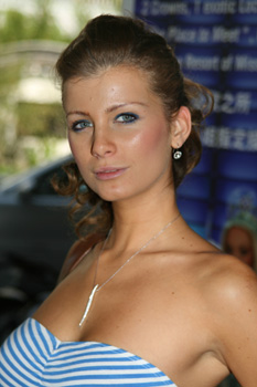 Miss Hungary 2007 - Krisztina Bodri in Miss World 2007, Sanya, China